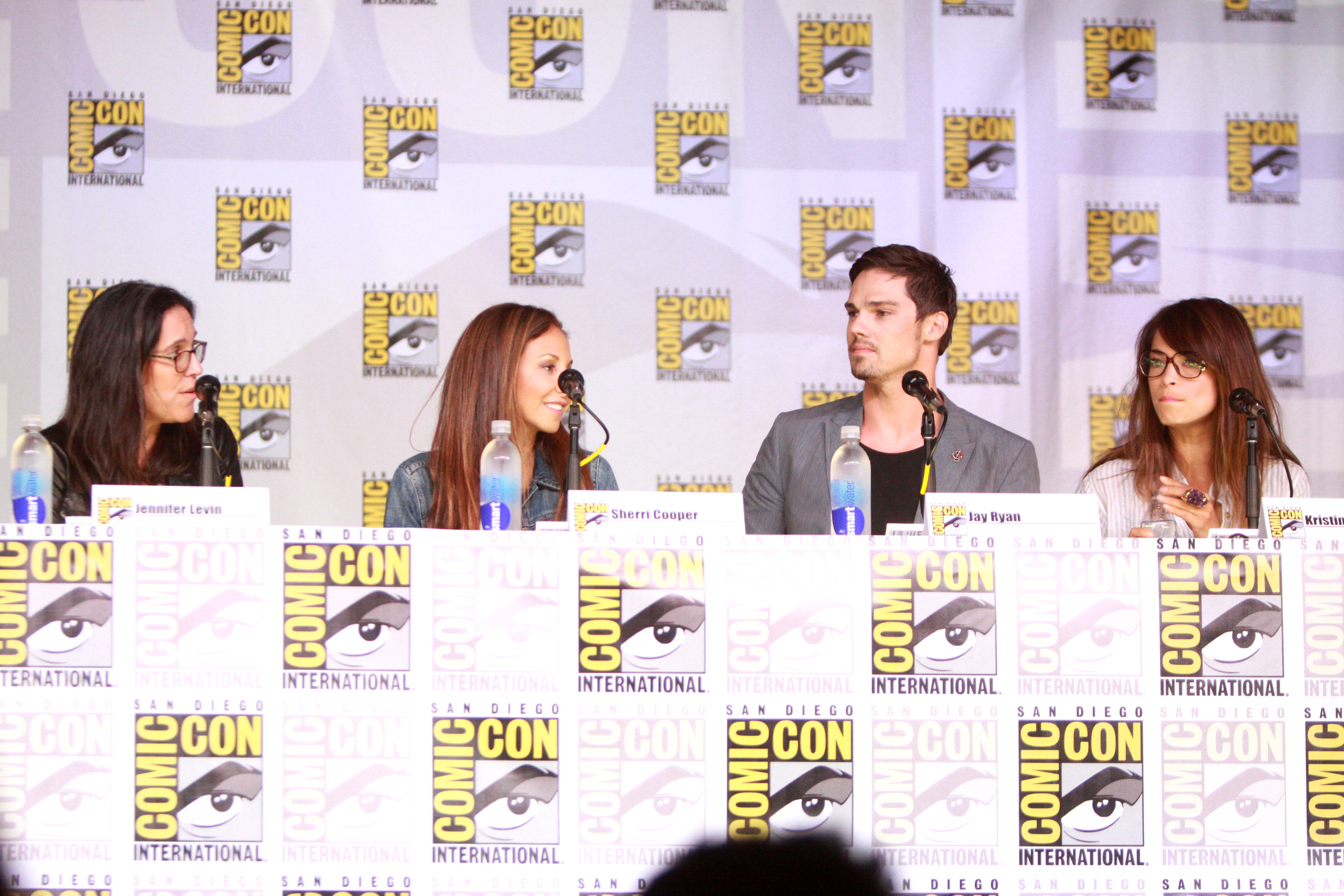 Sherri Cooper, Jennifer Levin, Jay Ryan and Kristin Kreuk speaking at the 2013 San Diego Comic Con International, for "Beauty and the Beast", at the San Diego Convention Center in San Diego, California.